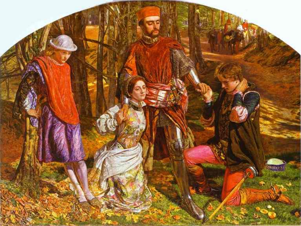 Two gentlemen from Verona (with Elizabeth Siddal as Sylvia)